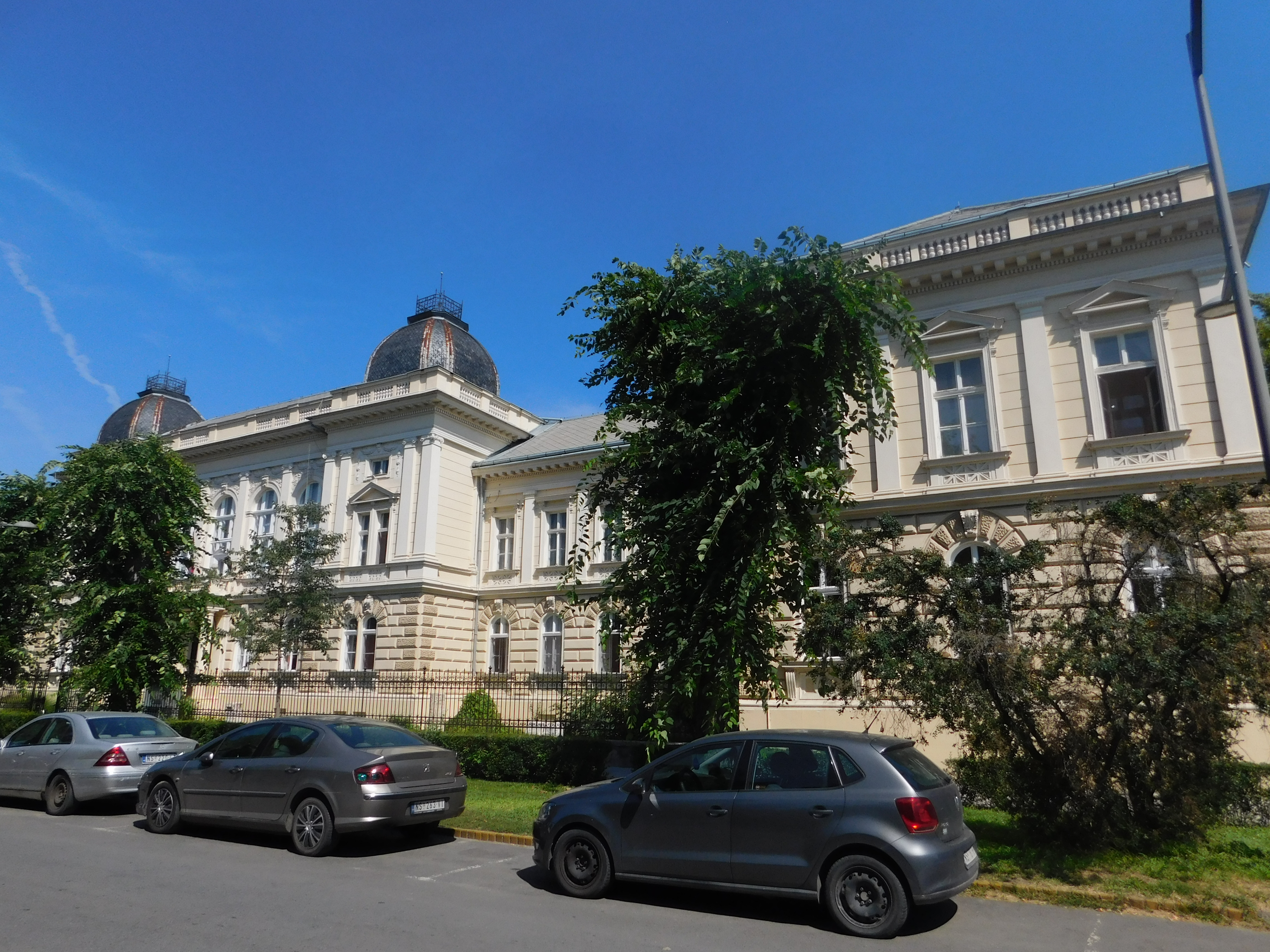 Museum of Vojvodina in Novi Sad - street view Српски (ћирилица): Музеј Војводине у Новом Саду - поглед са улице